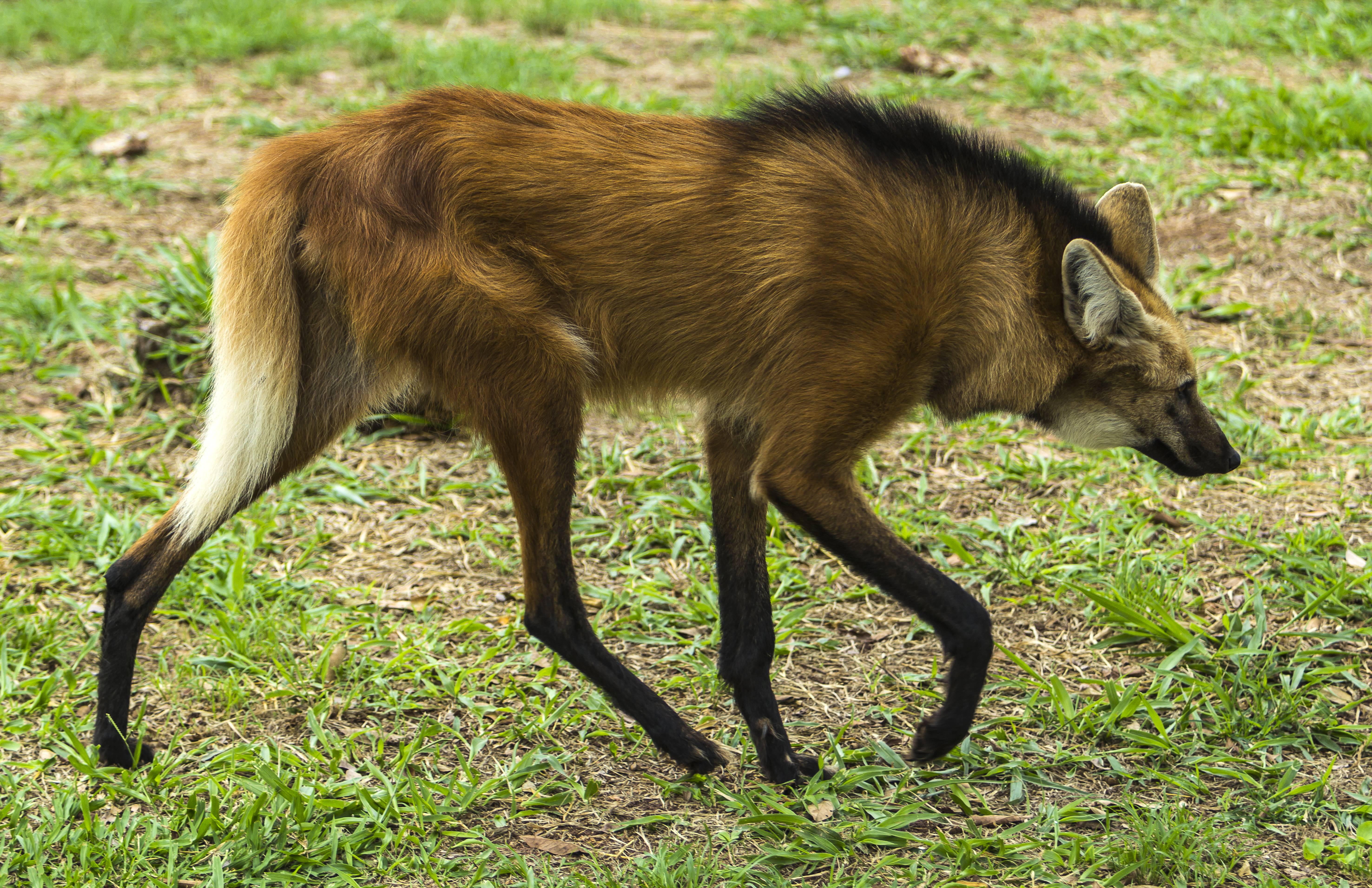 The Maned Wolf (Chrysocyon brachyurus) endangered species